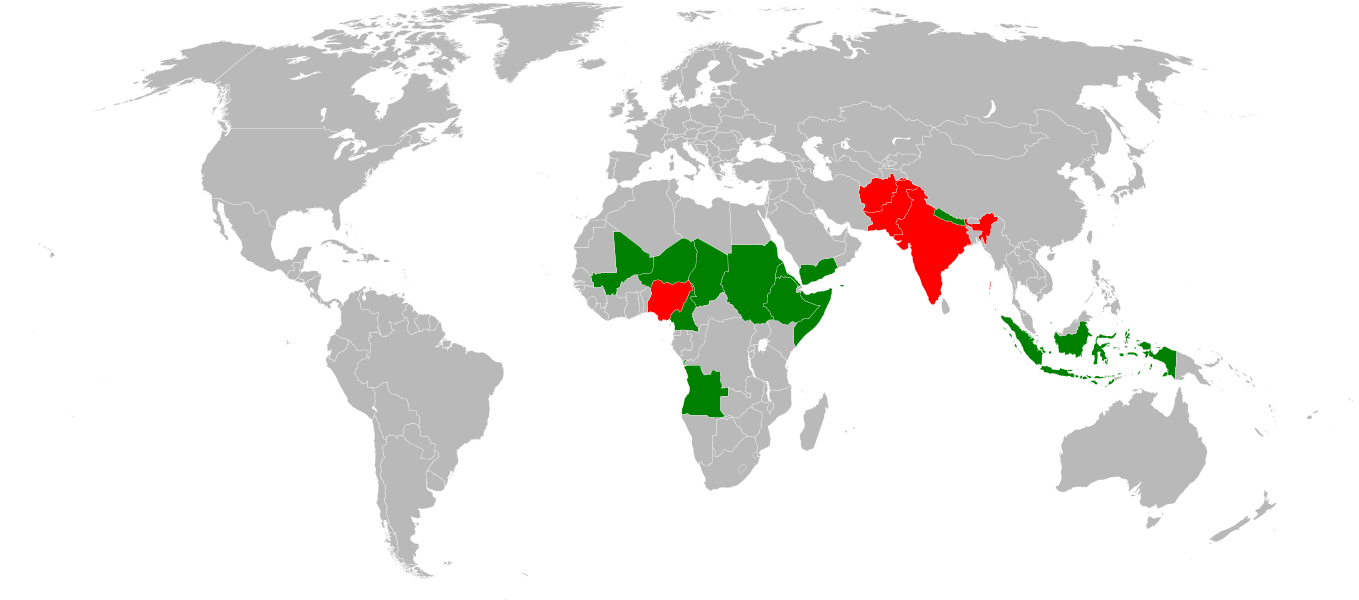 World map showing countries with confirmed cases of poliomyelitis (wild poliovirus) in 2005.Created with Inkspace and optimized with OptiPNG. Legend Countries where polio was endemic in 2005 Countries where all cases in 2005 were importation-related (i.e. the virus was carried into the country from another area)